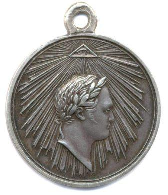 Medal "For the Capture of Paris" Eye of Providence, Alexander I of Russia, laurel wreath